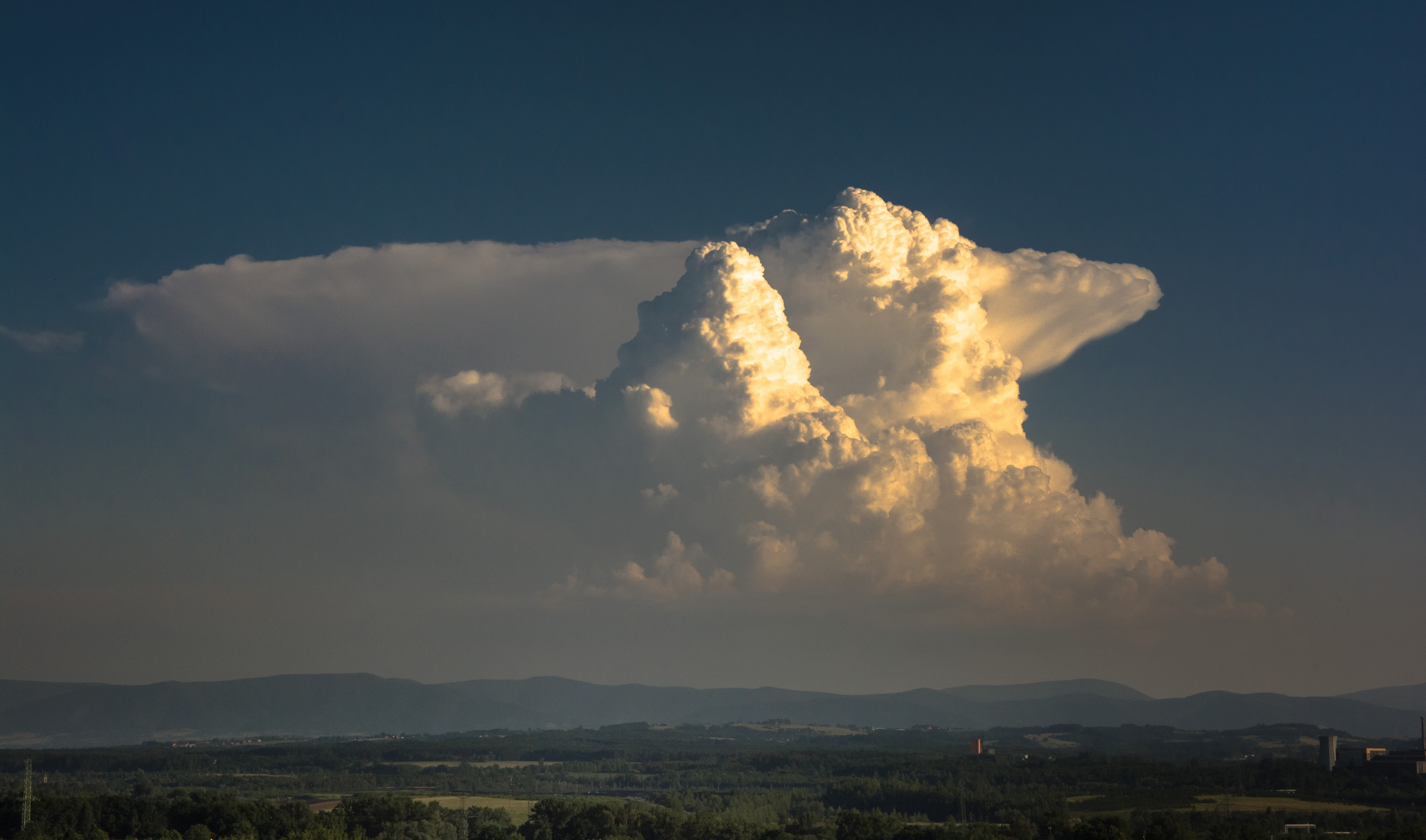 Cumulonimbus calvus in the foreground and Cumulonimbus incus (anvil) behind it.